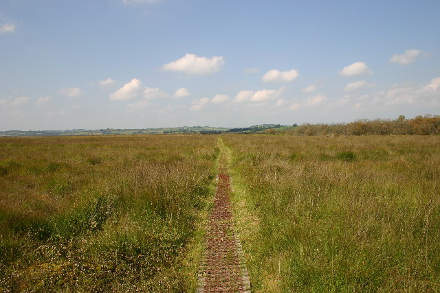 Boardwalk trail at Cors Caron, Pontrhydfendigaid, Ceredigion — a nature reserve in Wales. An EU designated Special Area of Conservation.